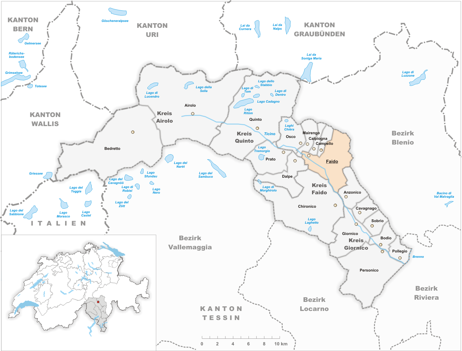 Municipality Faido